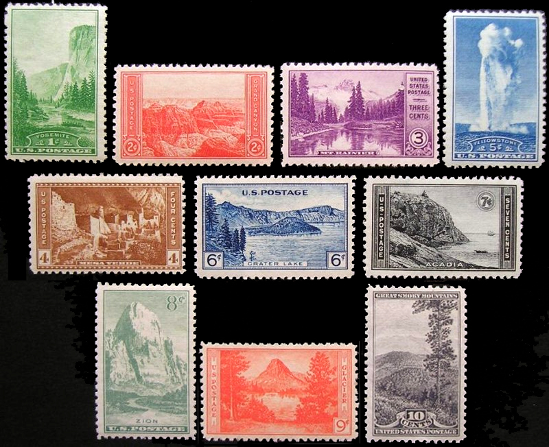 National Parks stamps, 1934